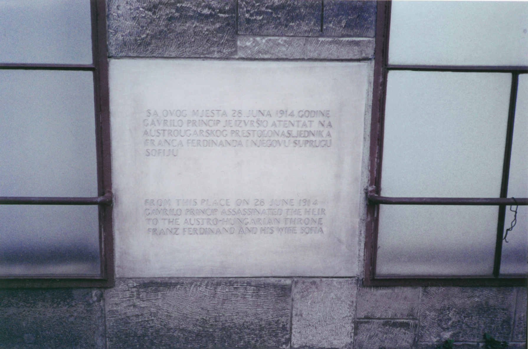 A plaque commemorating the exact scene of the Sarajevo Assassination.